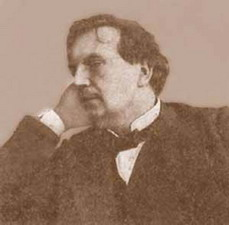 Photo of russian opera singer Ivan Ershov (1867-1943)